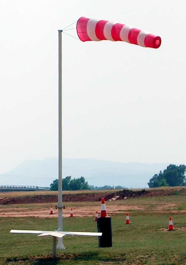 Anemoscope